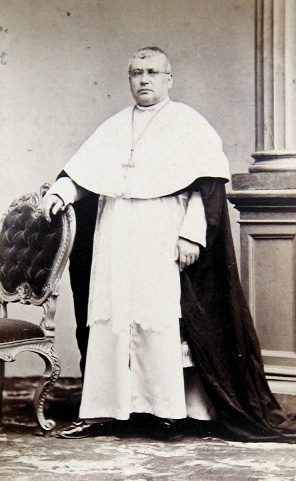 Fratelli D'Alessandri: Cardinal Filippo Maria Guidi (Bologna, July 18 1815 - Rome, February 27 1879), O. P. . Picture taken in 1869 during the First Vatican Council, where the sitter attended as Council Father.